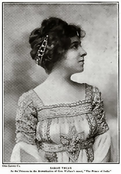 Sarah Truax as Princess Irene in The Prince of India